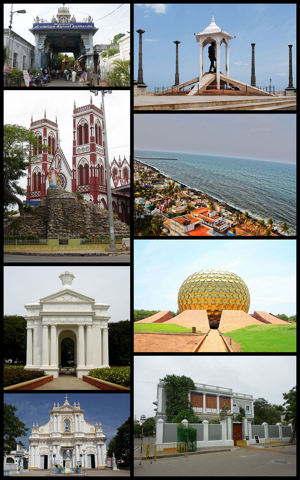 Sources Pondicherry Gandhi Statue - File:GandhiStatuePondicherry.jpg Promenade Beach - File:Rock beach aerial view.jpg Mantrimandir - File:Matrimandir.JPG Sri Aurobindo Ashram - File:Sri Aurobindo Ashram, Pondicherry.JPG Immaculate Conception Cathedral - File:Puducherry Immaculate Conception Cathedral 2.jpg Park Monument - File:Puducherry Park_Monument retouched.jpg Basilica of the Sacred Heart of Jesus - File:Puducherry Sacred Heart Cathedral 2.JPG Manakula Vinayagar Temple - File:Pondicherry Manakula Vinayagar Temple.JPG